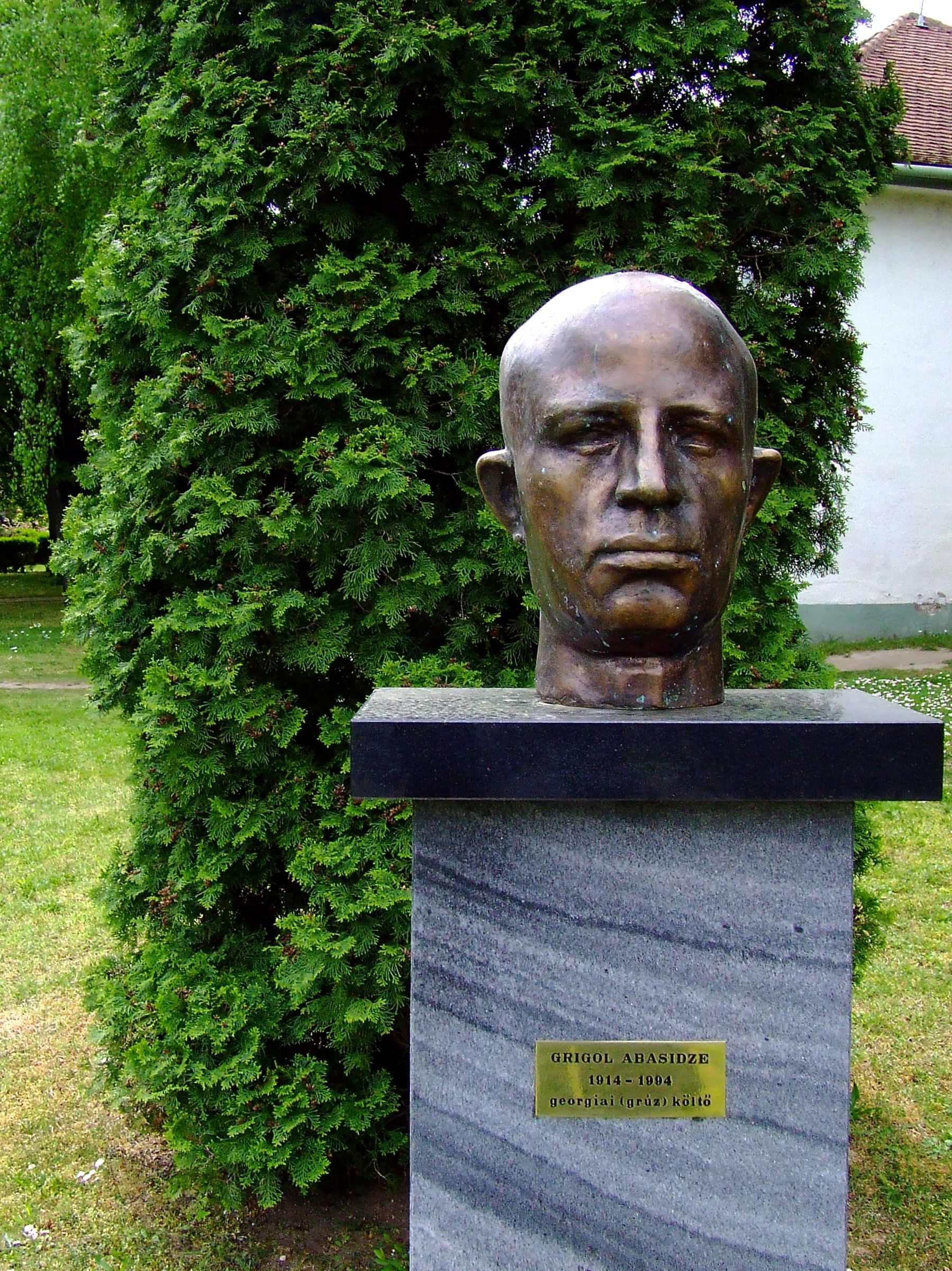 Grigol Abashidze by Tezi Asatiani in Kiskőrös Petőfi sculpture park, Hungary. Bronze bust, inauguration on October 29, 2010.